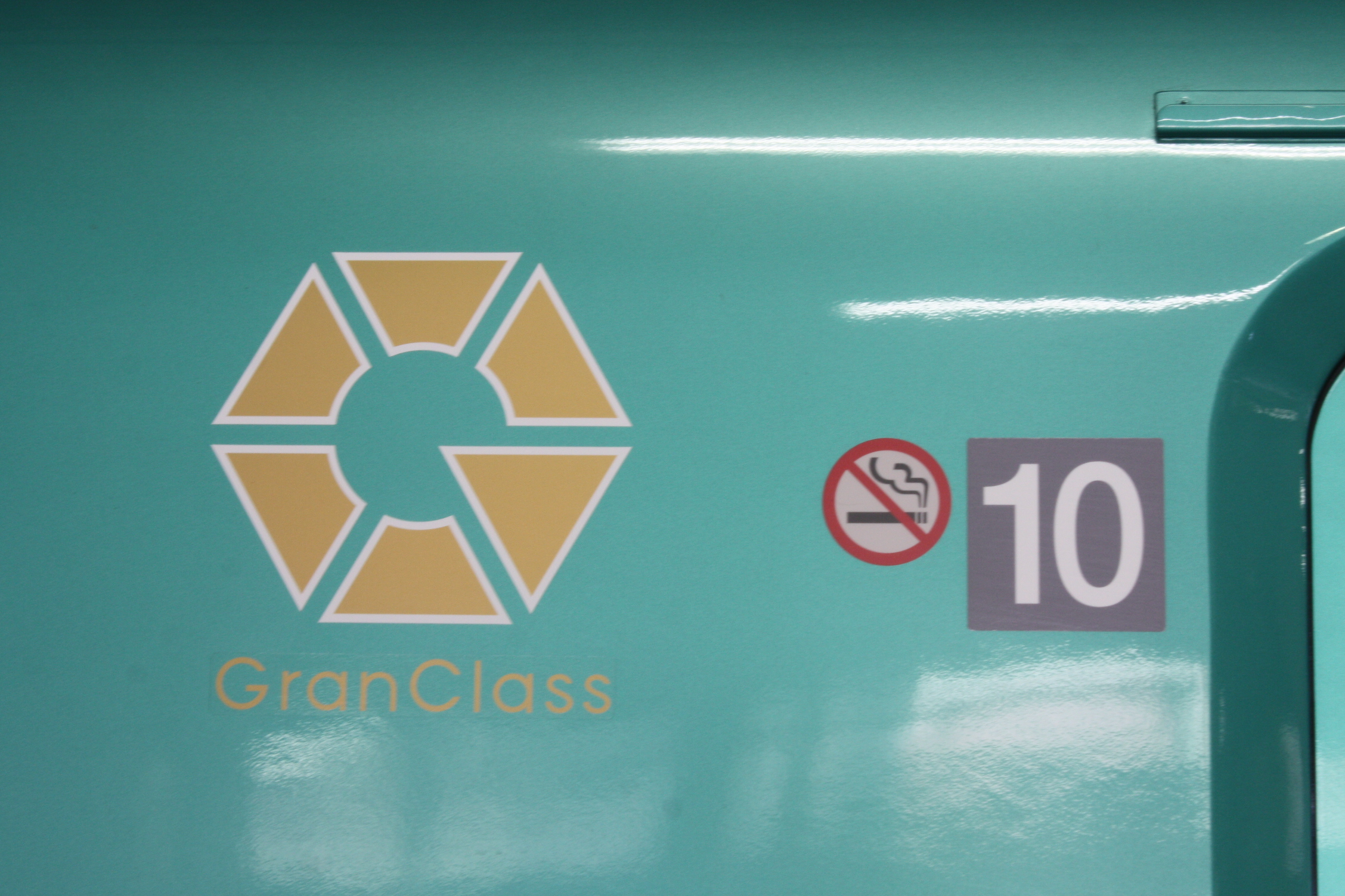 JR East E5 series shinkansen, showing "GranClass" logo on car 10